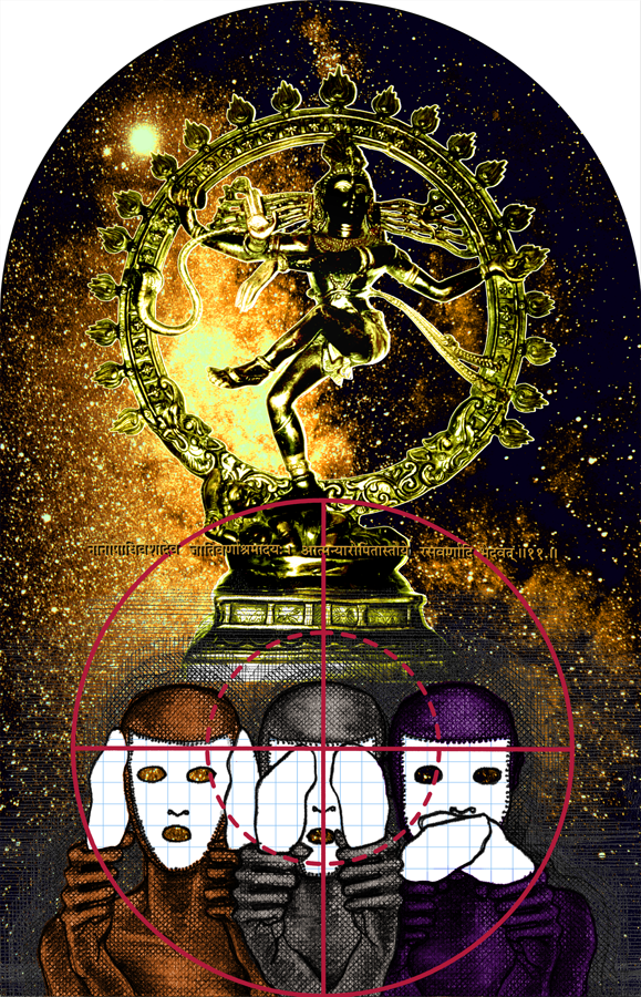 The Color Wheel Series #29: Annomayakosha, silk screened photo-text collage